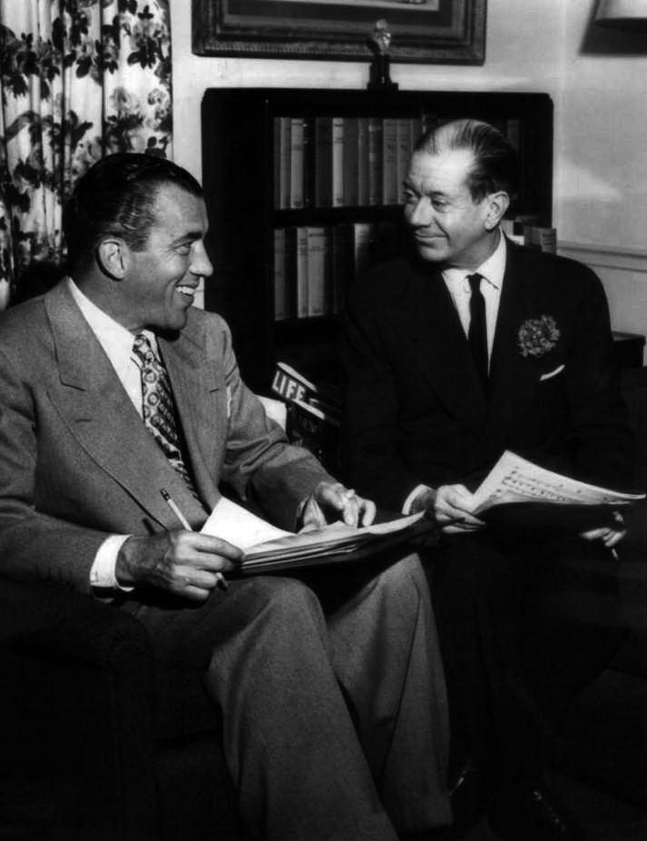 Photo of Ed Sullivan and Cole Porter from Sullivan's first television program Toast of the Town.